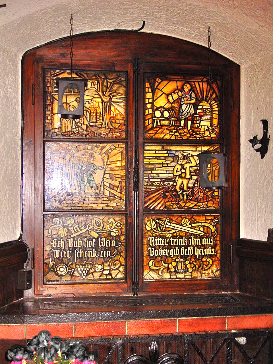 Historic pub window